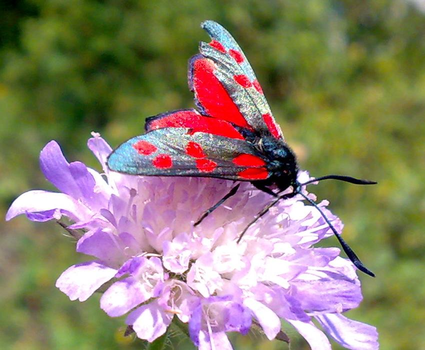 Zygaena filipendulae, photo from Ersvika, Hurum, Norway